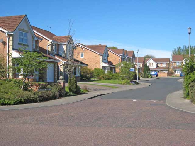 Alverton Drive, Newton Aycliffe One of the more modern estates in the "new town" (founded as far back as 1947) of Newton Aycliffe .